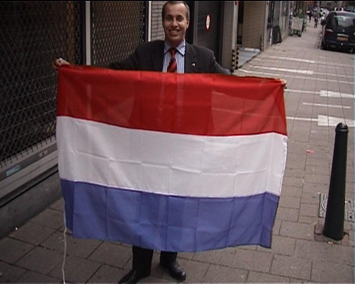 Michiel Smit in Rotterdam on July 3rd, 2003.